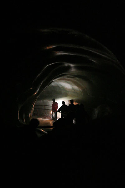 Eisriesenwelt lighting